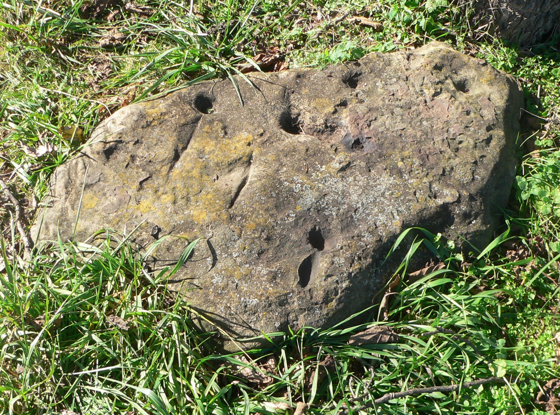 Osage Village State Historical Site, northwest of Harwood in Vernon County, Missouri. Rock at stop along interpretive trail. The brochure for the trail describes this stop thus: "Utilized Bedrock Outcrop. Notice the two pecked depressions, which probably resulted from Osage woman cracking nuts, and two grooves for making bone tools".